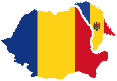 Drawing according with the political symbols of some unionist protests on their banners